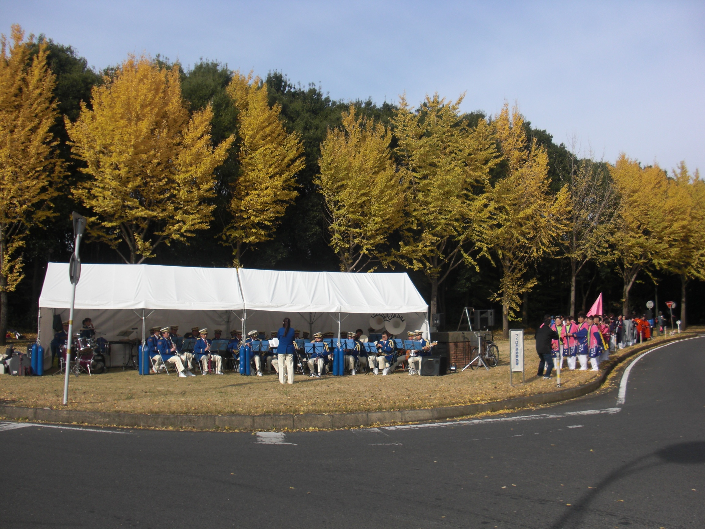 This is the Tsukuba city Fire department's band in Tsukuba marathon.